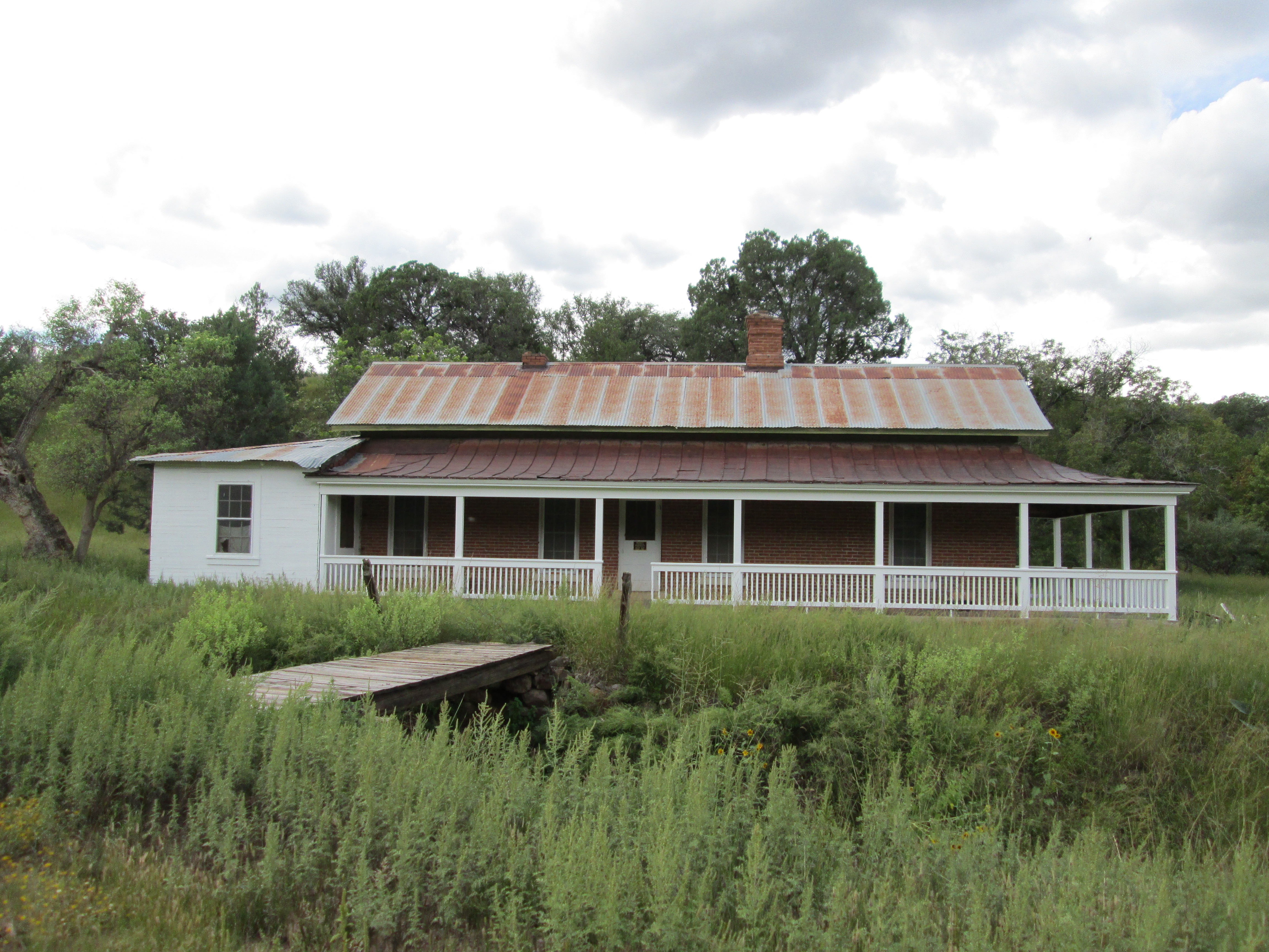 The Finley House on Hale Ranch property in the ghost town of Harshaw, Arizona. Built circa 1877 by James Finley.